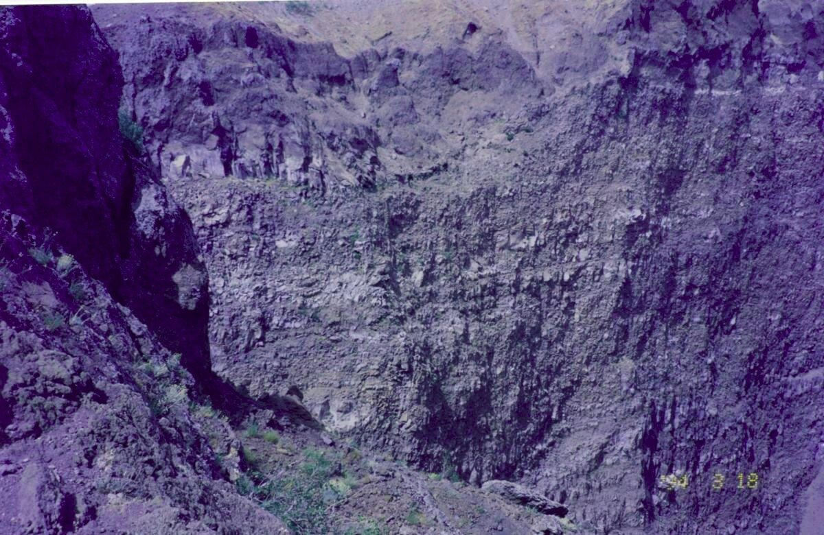 Mount Vesuvius crater